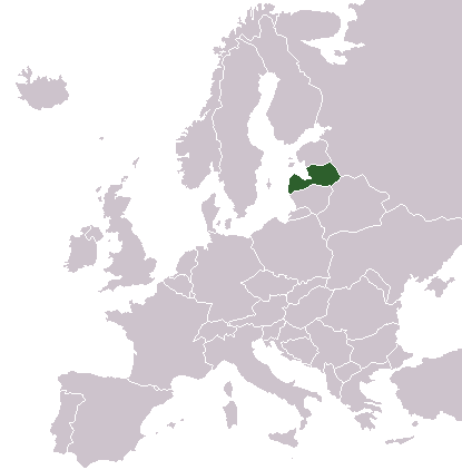 Location of Latvia in Europe.